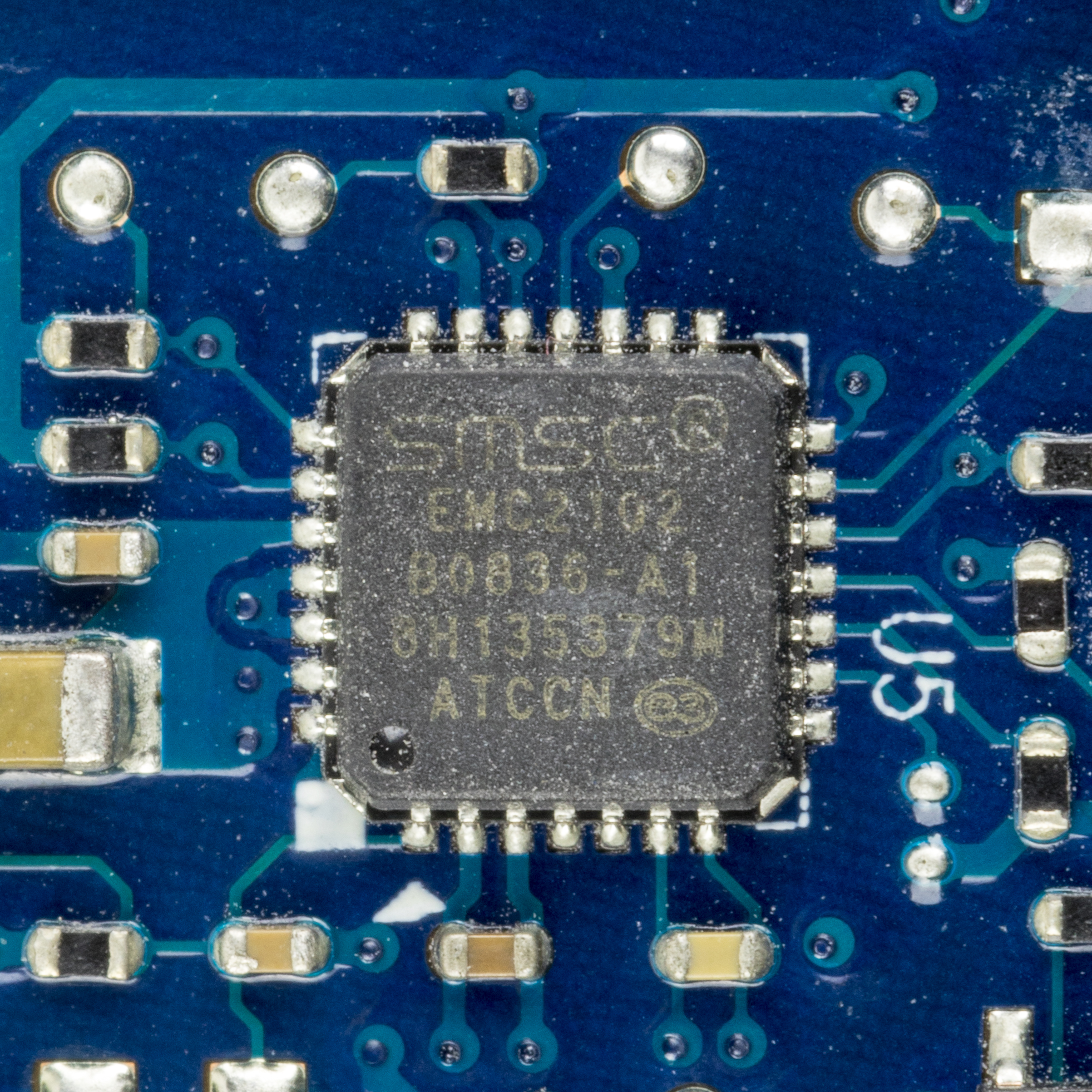 Samsung NC10 - motherboard - SMSC EMC2102 - RPM-Based Fan Controller with HW Thermal Shutdown. Package: 28-pin, 5x5 QFN